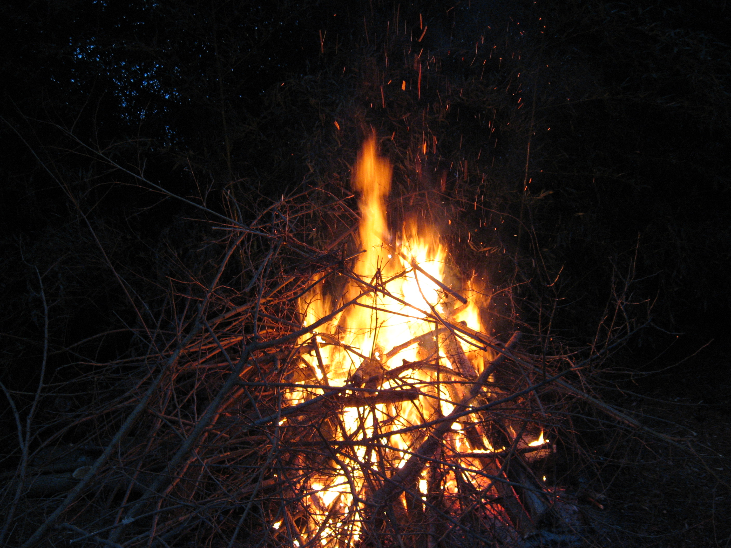 A bonfire burning branches and sticks from fallen trees.